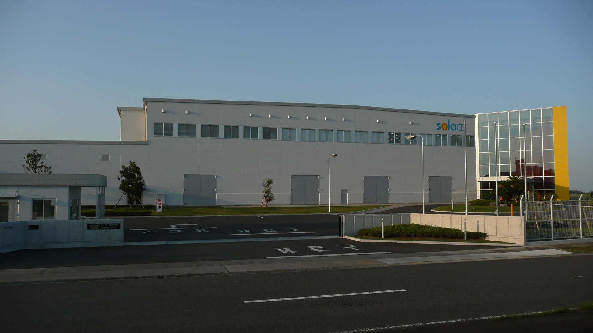 Showa Shell Solar Miyazaki 2nd Plant (Kiyotake Town, Miyazaki City, Japan)